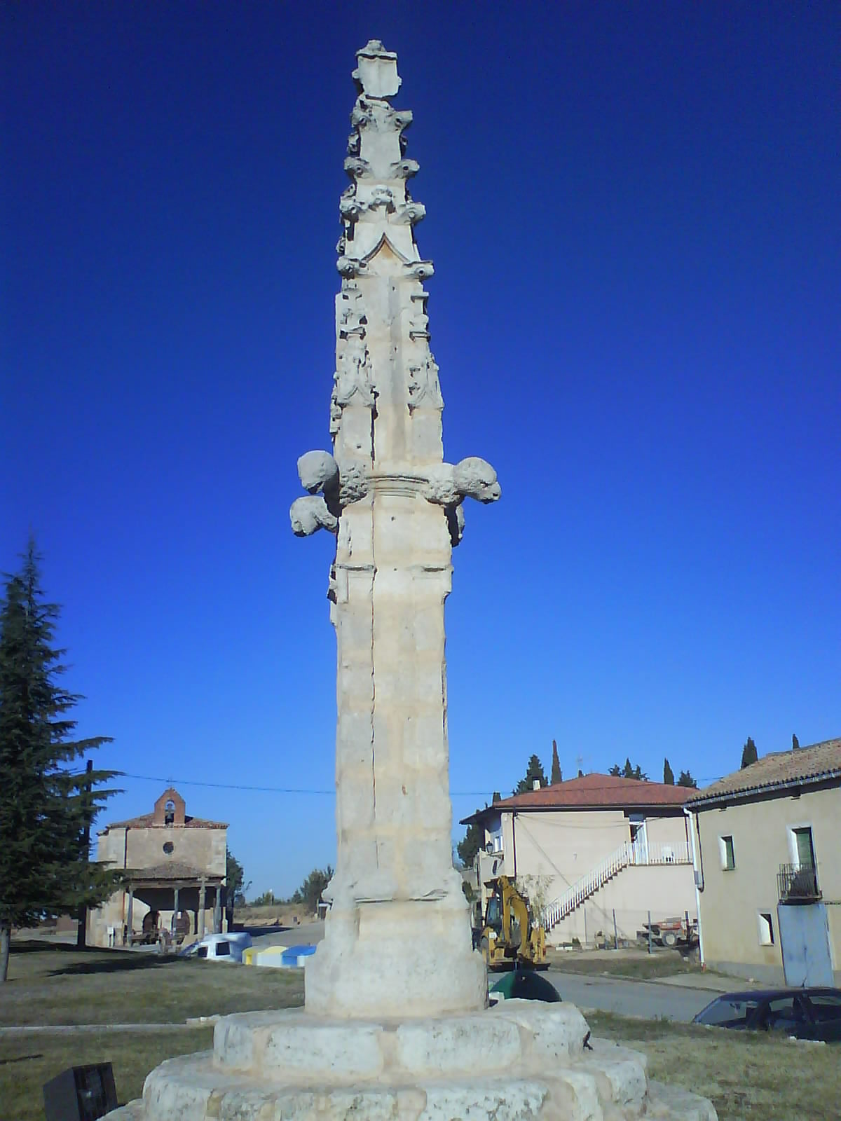 Gothic pillory at Berlanga de Duero, Soria (Spain).